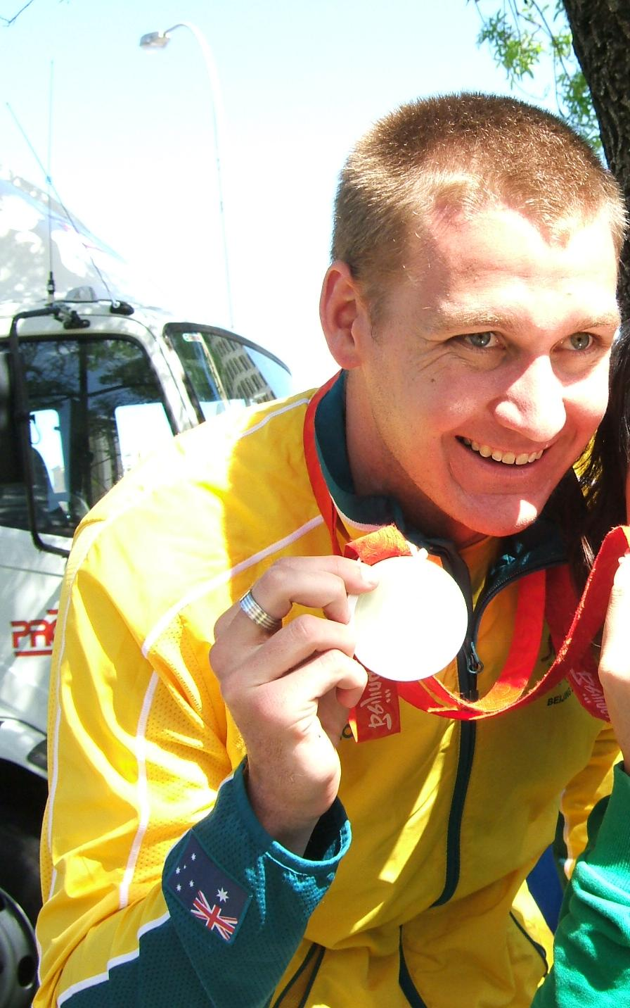 Brenton Rickard at the Adelaide 2008 Olympic welcome home parade